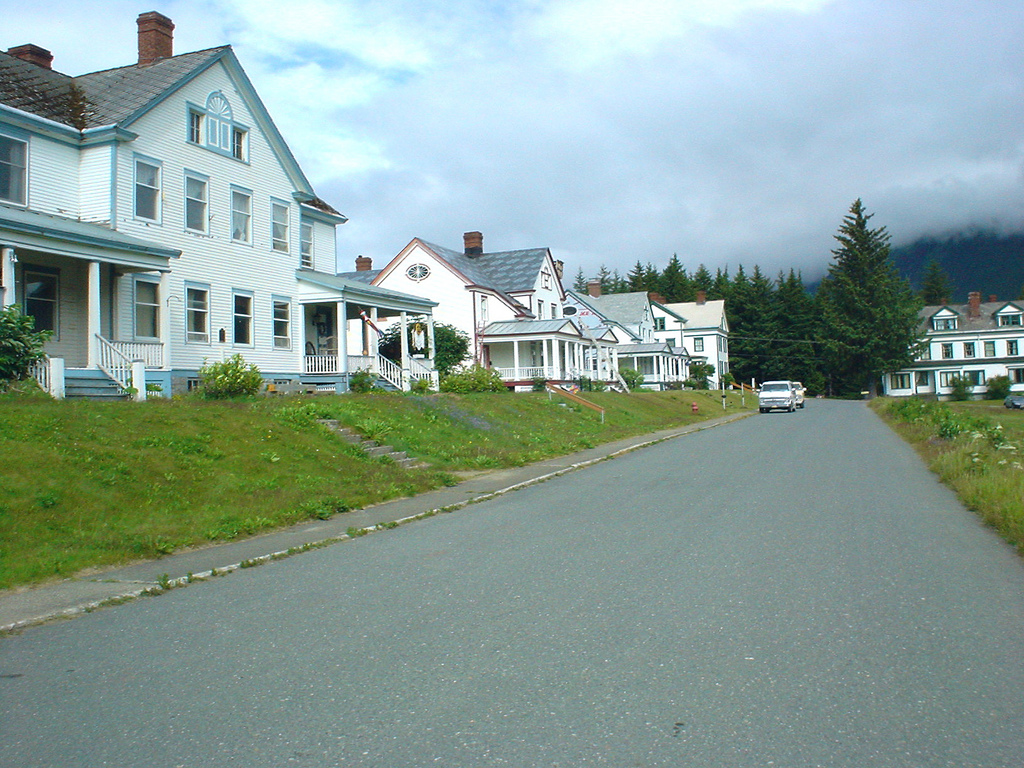 Haines, Alaska, Fort Seward Drive